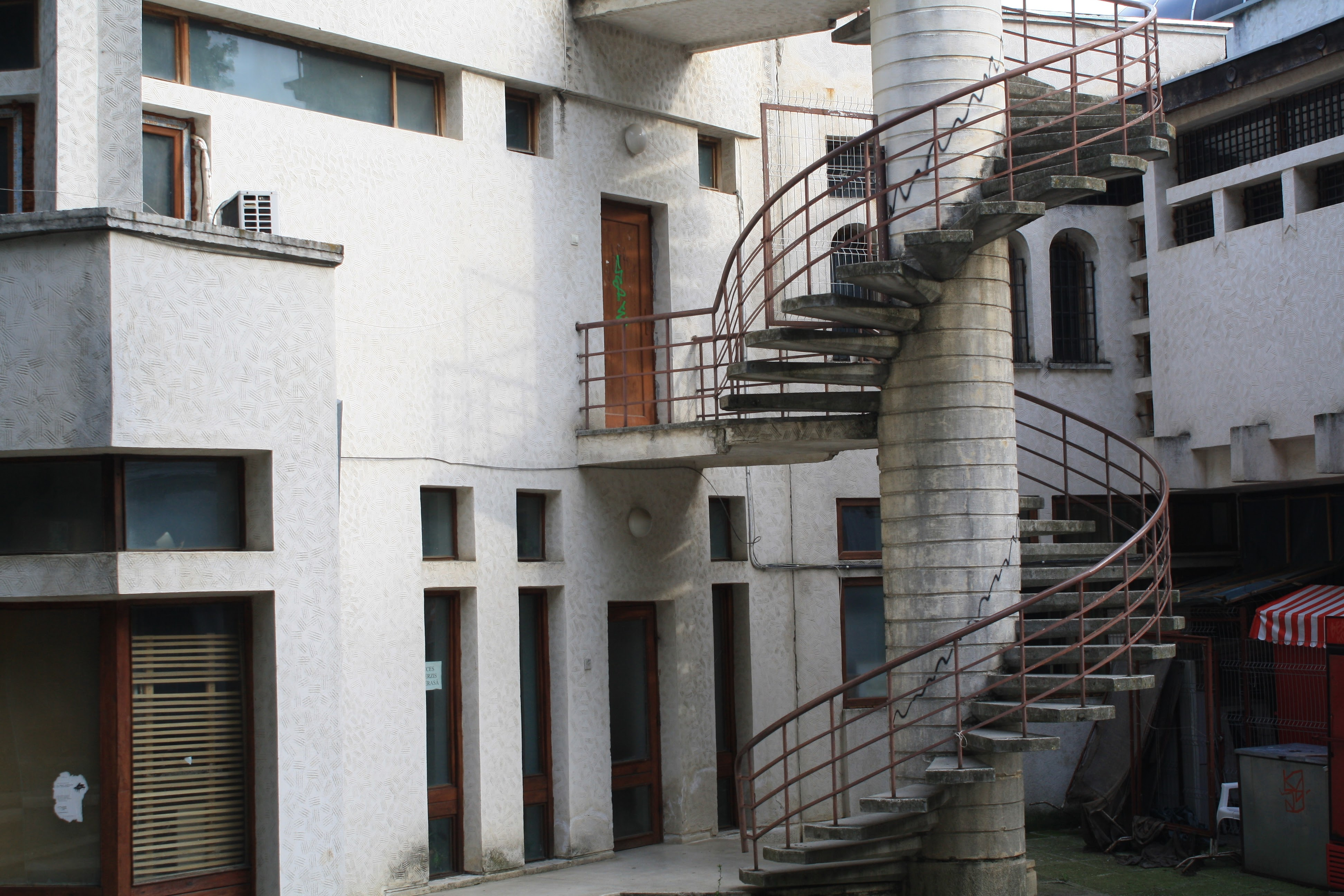 Muzeul "Mihai Eminescu" din Parcul Copou, Iaşi (exterior) (nord)